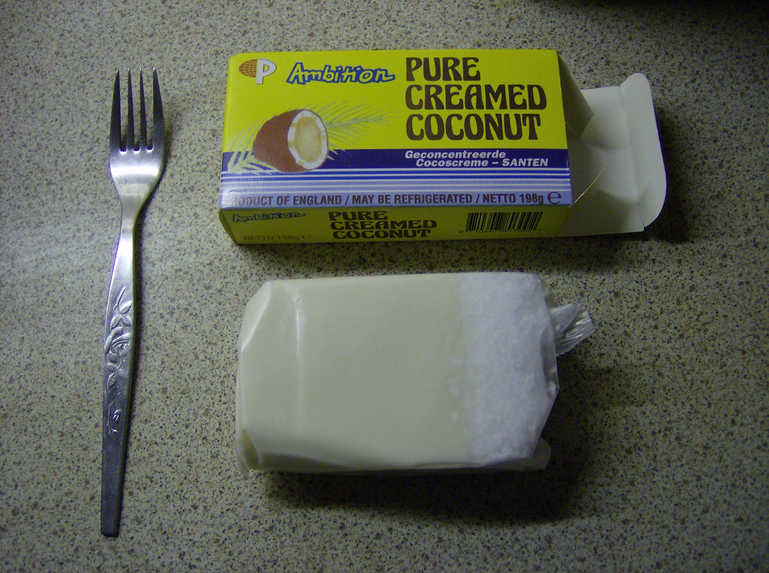 Condensed coconut milk